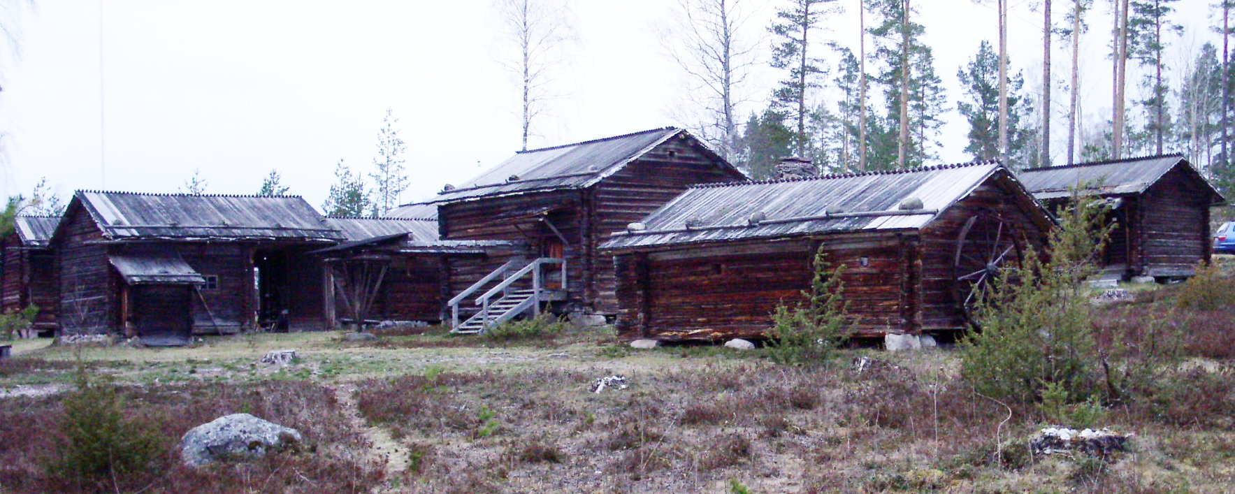 View of Gagnefs minnsstuga (Museum), Dalarna, Sweden